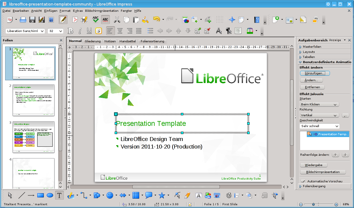 LibreOffice 3.4.5 Impress (German) under Fedora 16 (Linux) - shows the "LibreOffice Presentation Template provided by the LibreOffice Design Team for the Community".